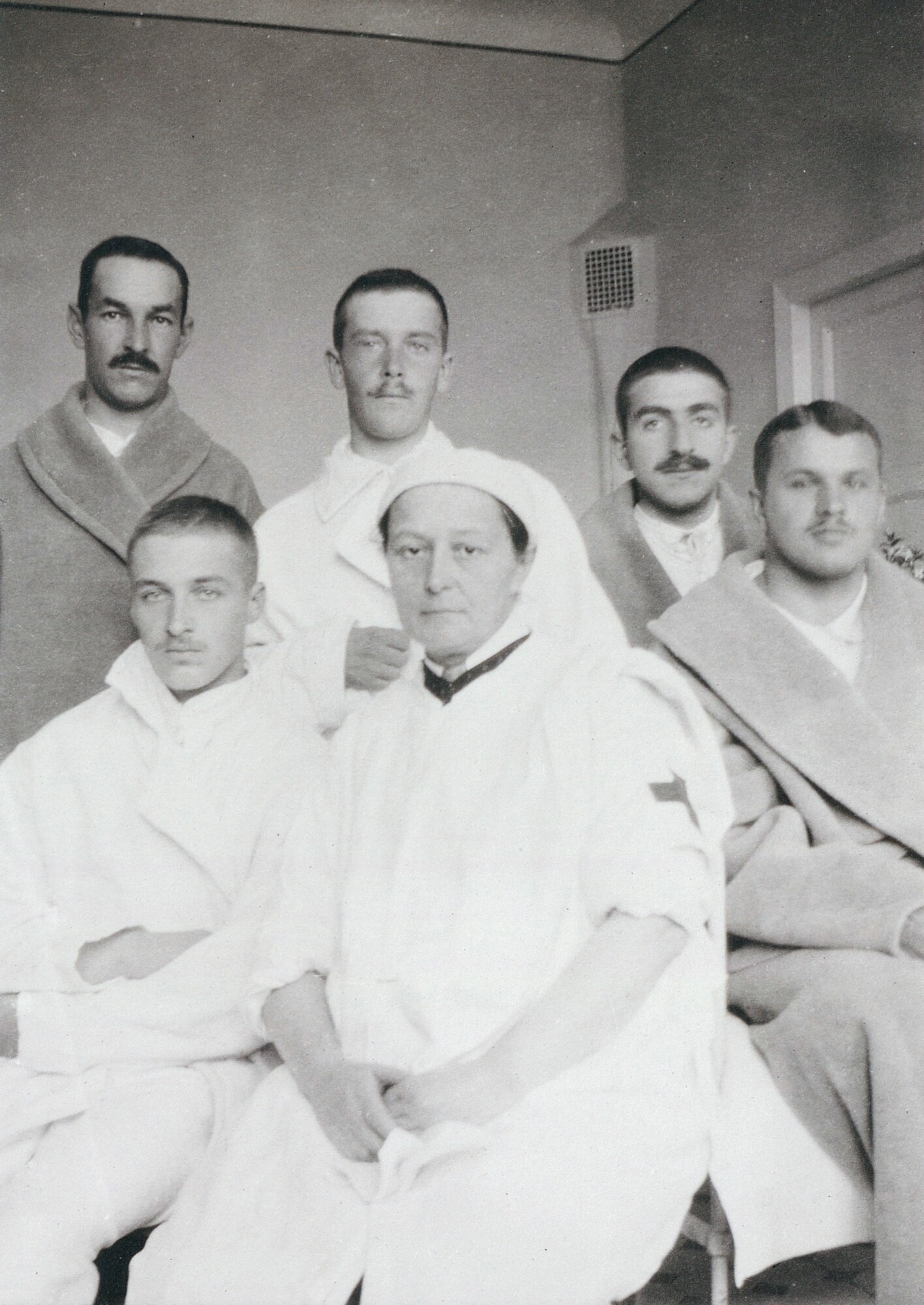 Vera Gedroitz Original description: Nurse and patients